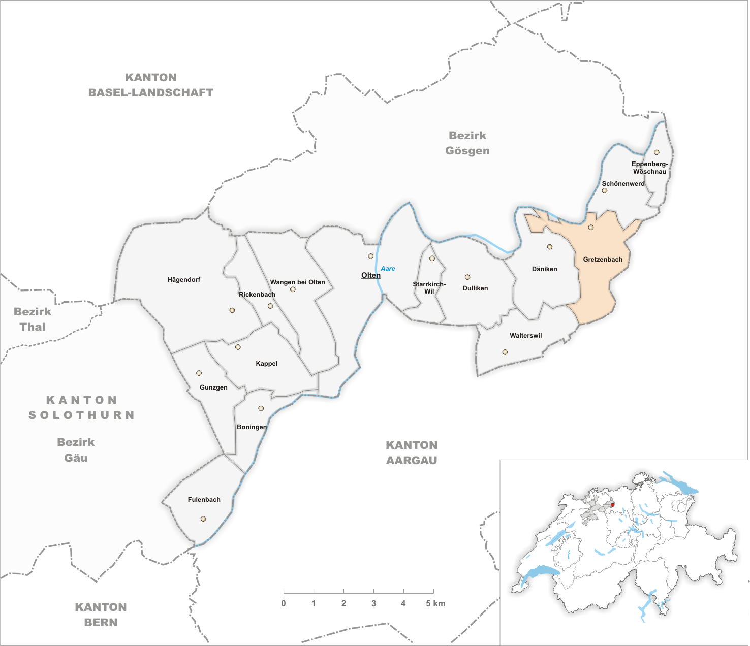 Municipality Gretzenbach